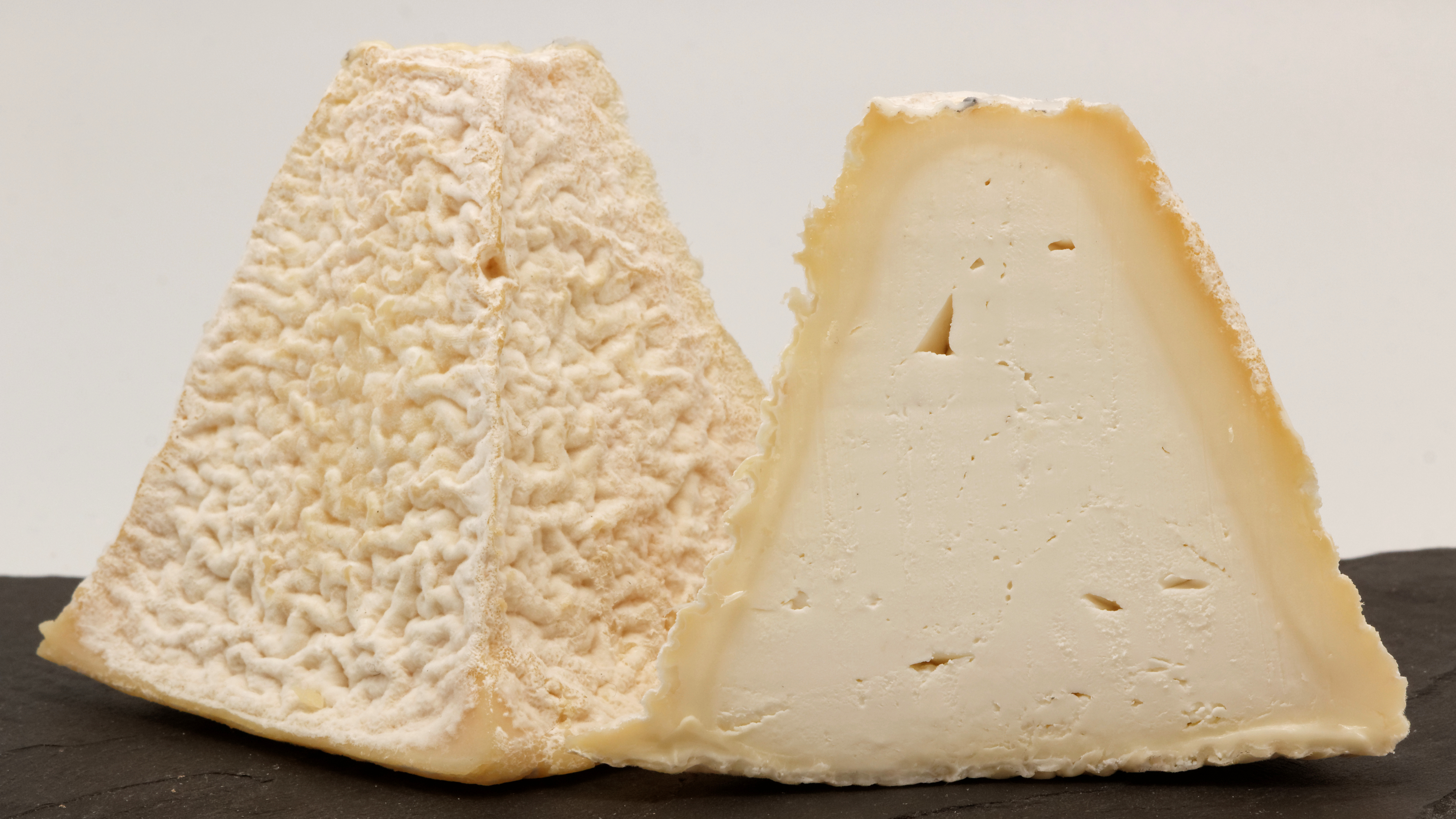 Pouligny-saint-pierre (goats'-milk cheese)